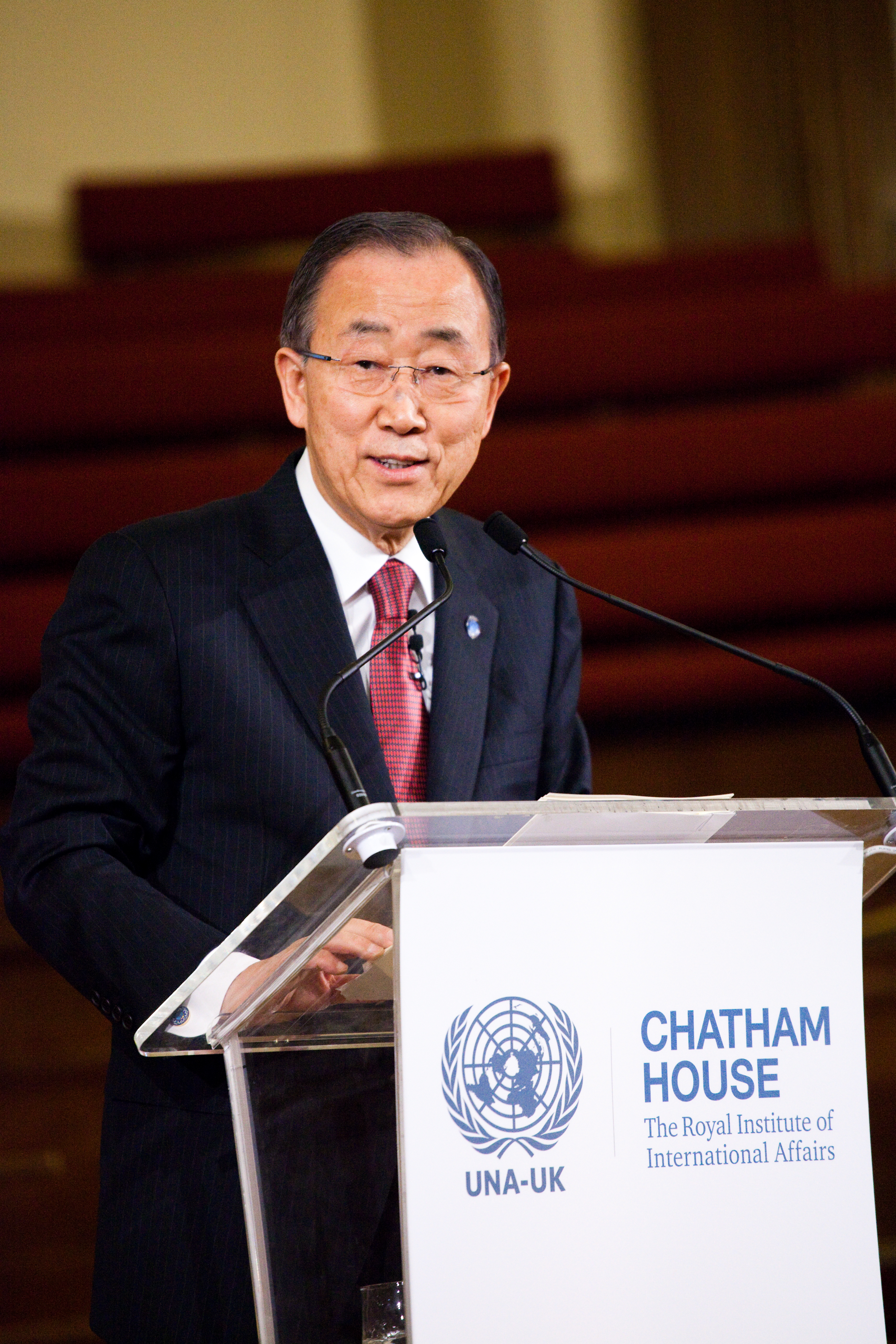 5 February 2016, cht.hm/1KAZz9O